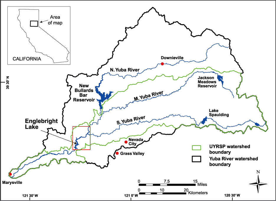 Map of the watershed of the Yuba River in Nevada and Yuba Counties, California, USA. Map drawn by the U.S. Geological Service (USGS) for bathymetric and geophysical surveys of Englebright Lake, which is impounded by Englebright Dam on the Yuba River. The black borders encompass the entire watershed of the three forks of the Yuba River. The green borders encompass the limits of the USGS Upper Yuba River Watershed Studies Program (UYRSP) area. Map slightly reworked by contributor from source map and converted to PNG.